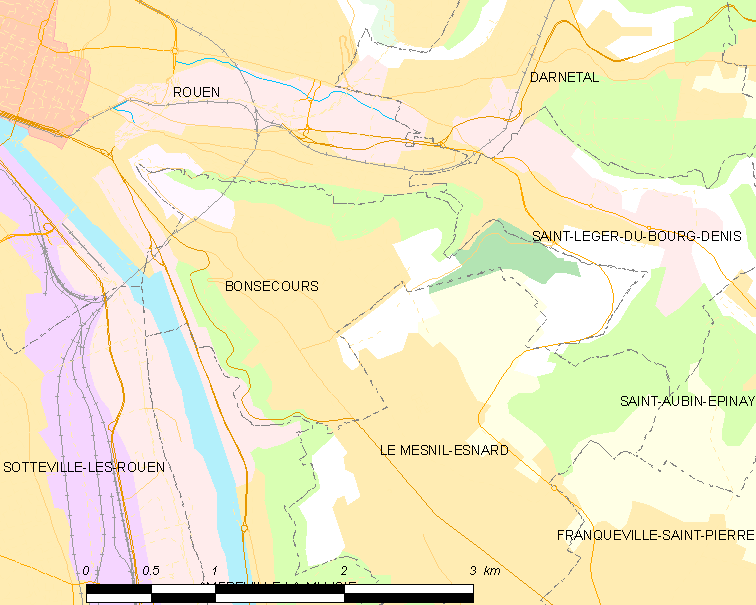 Map of French municipality Bonsecours